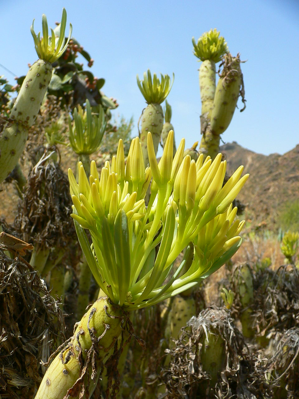 Near Bentayga, Tejeda A Senecio? Wish there had been open flowers, too. It was rather dry, even the Opuntias seemed to be suffering. Senecio kleinia